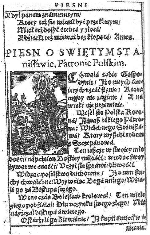 A page of Chwała tobie, Gospodynie from 17th century.